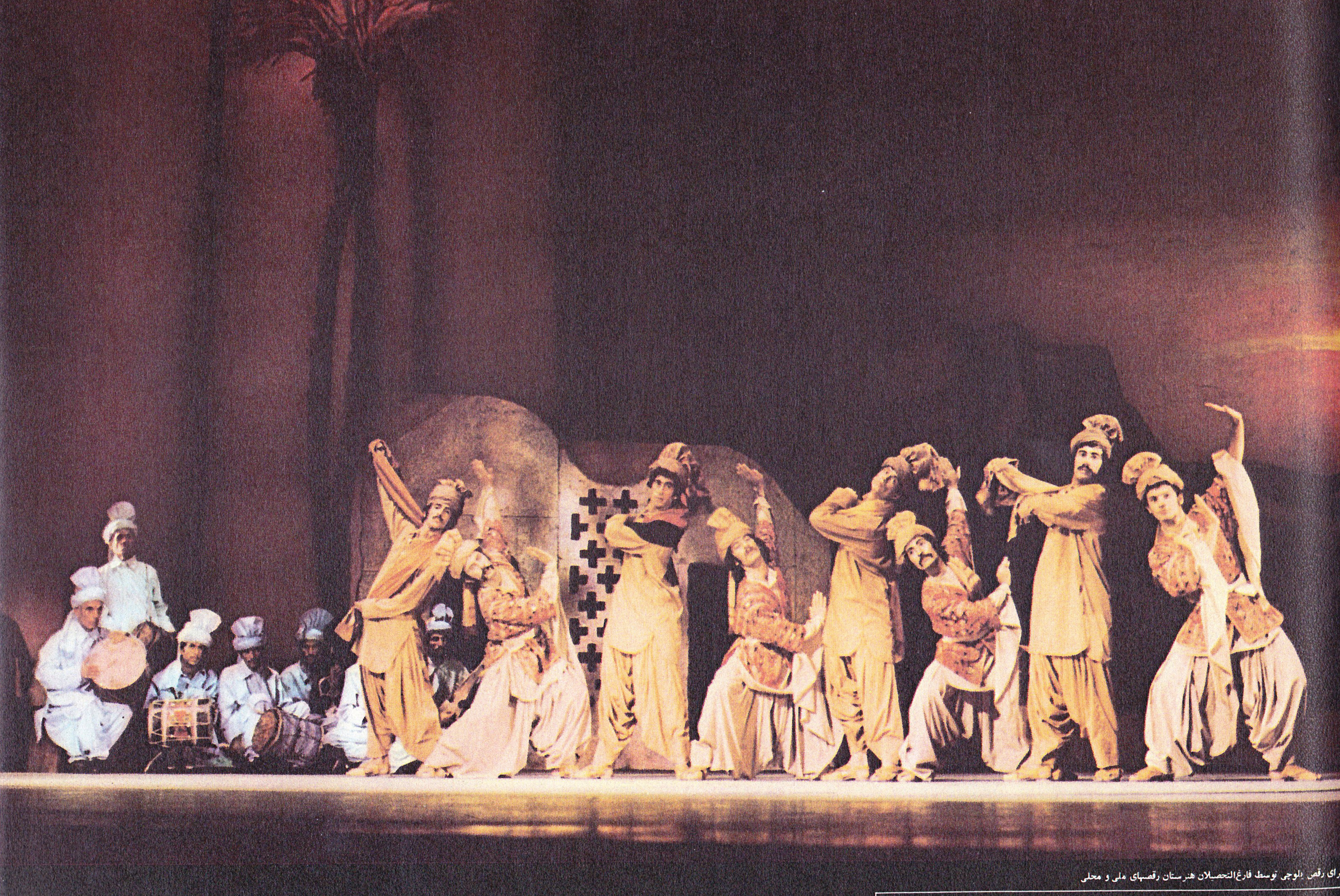 Balutshi dance performed by graduates of folk dance academy, Tehran, Iran